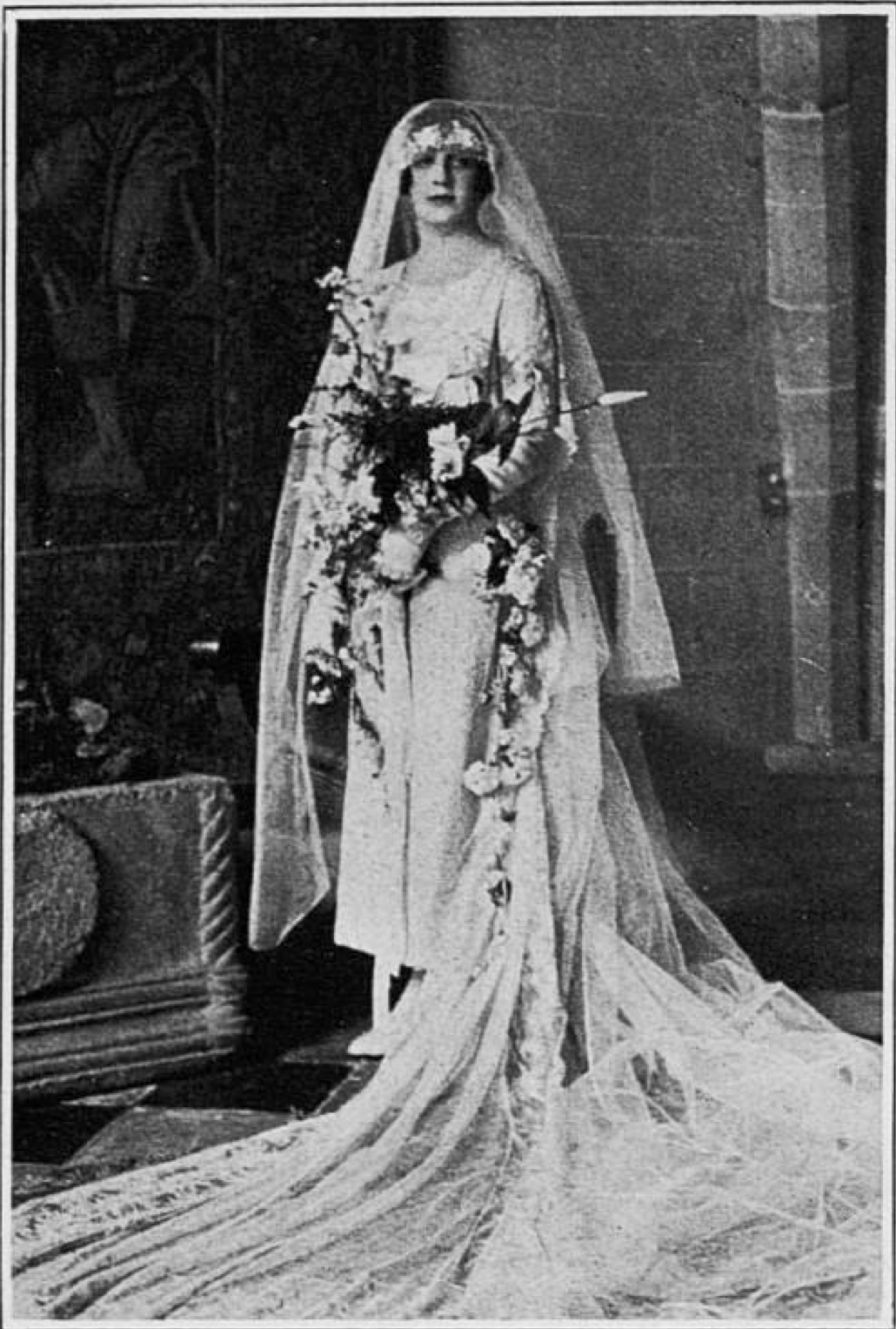 Mme Jean Gradis, née Lucienne Goüin